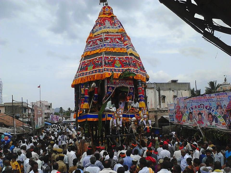 Theru 2